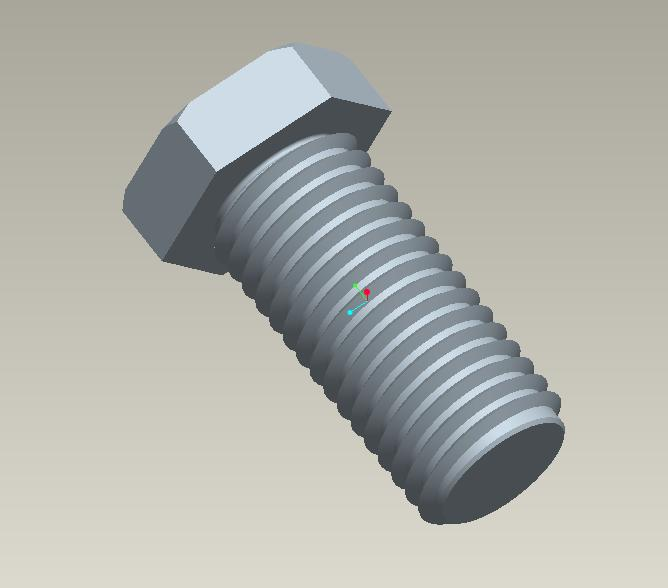 3D model of an screw bolt. Own work in Pro/Engineer Wildfire 2.0 [1]